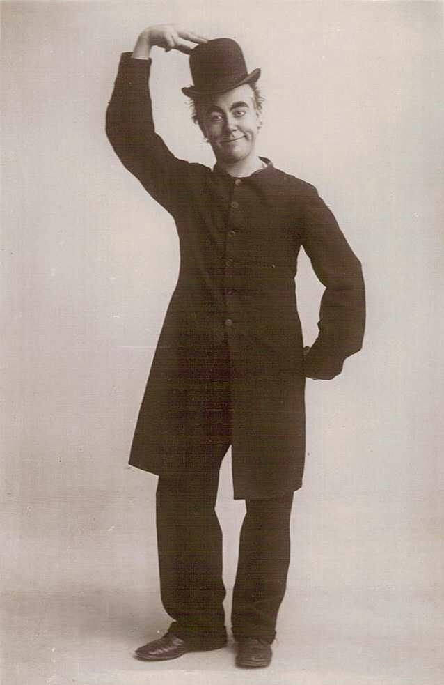 The English Music hall comedian George Robey in character as The Prime Minister of Mirth. Photo taken by an unknown, freelanced photographer on behalf of the Rotary Photo Company.